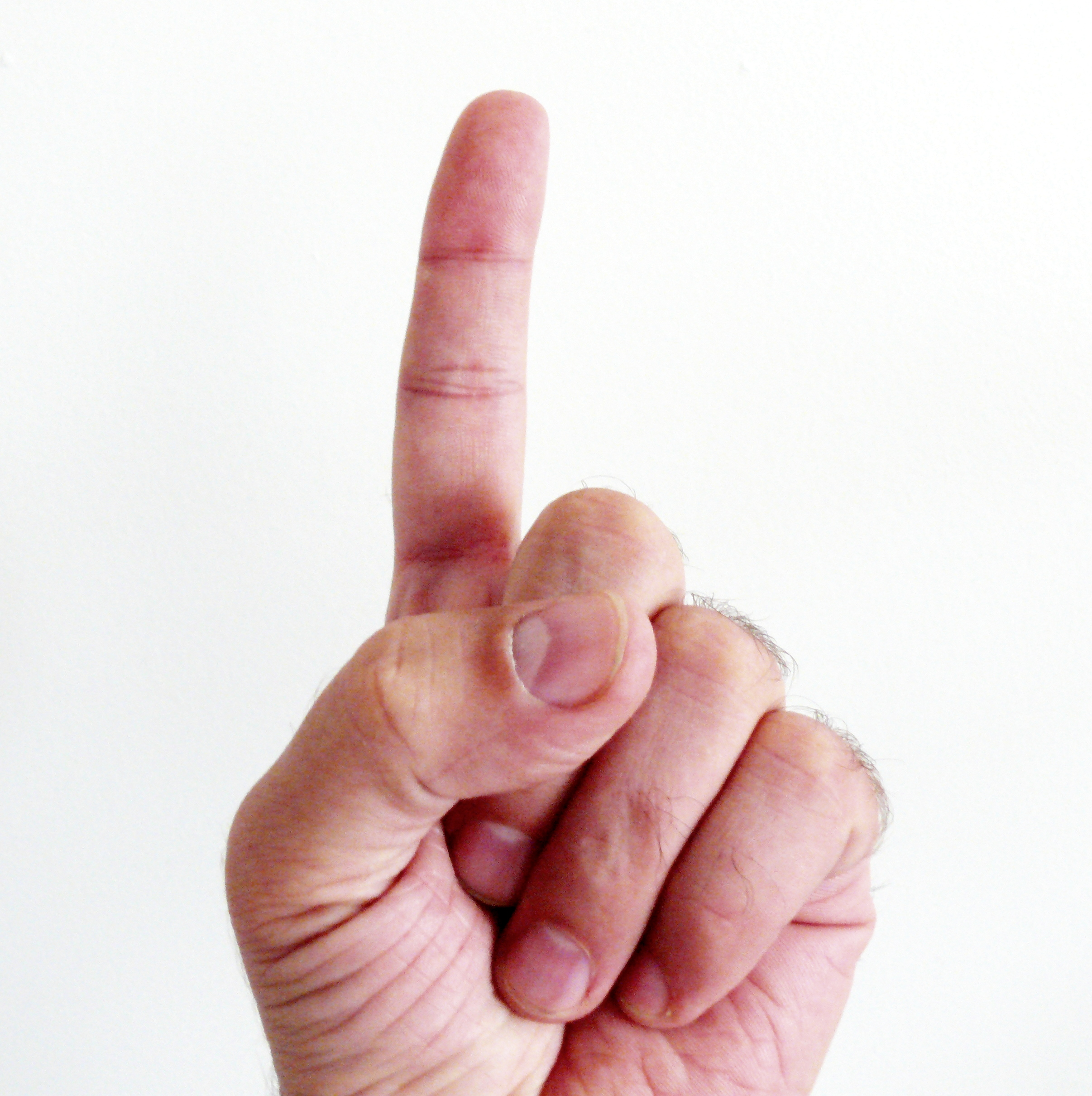 fingers